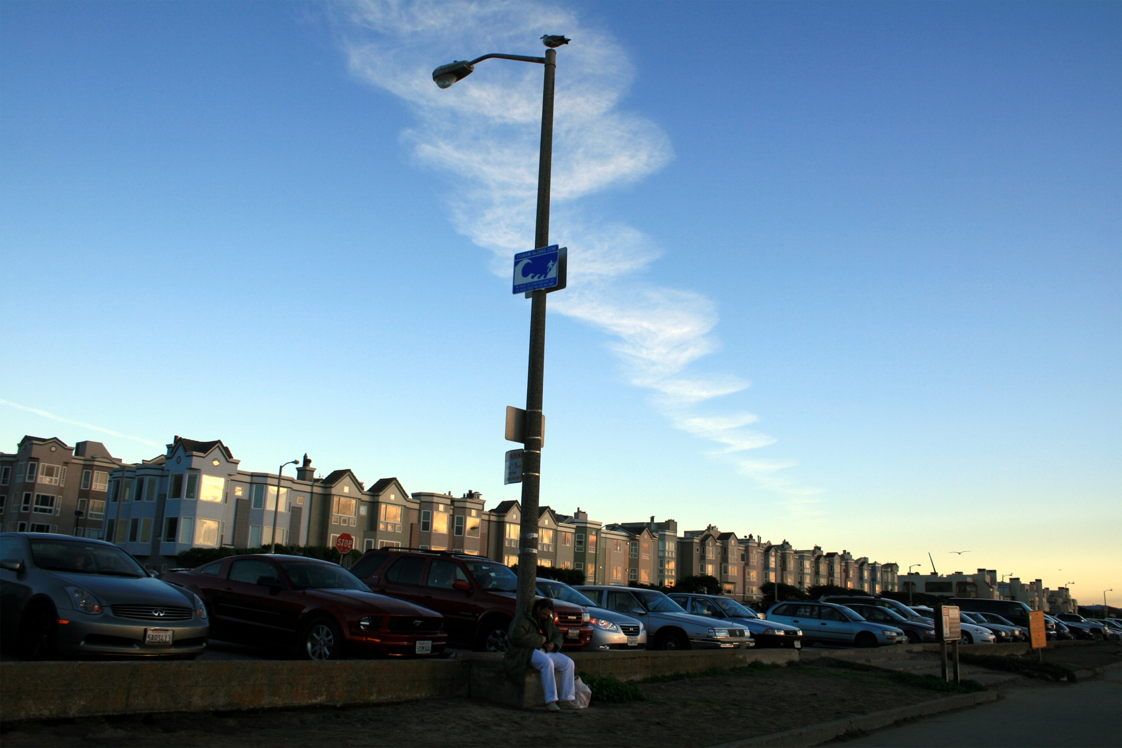 Contrail that looked strangely similar to the tsunami warning sign, which is seen at street light below, San Francisco, California. This contrail is example of Crow Instability. Crow Instability is an inviscid line-vortex instability, named after its discoverer S. C. Crow. It is observed when the vortices caused by aircraft are being whirled from being otherwise straight contrails into spirals then donut-shaped rings.